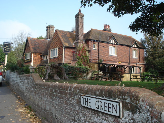 The Queens Head PH, Sedlescombe